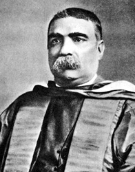 Sir Asutosh Mukharji, Ex-Vice chancellor of Kalkata University.